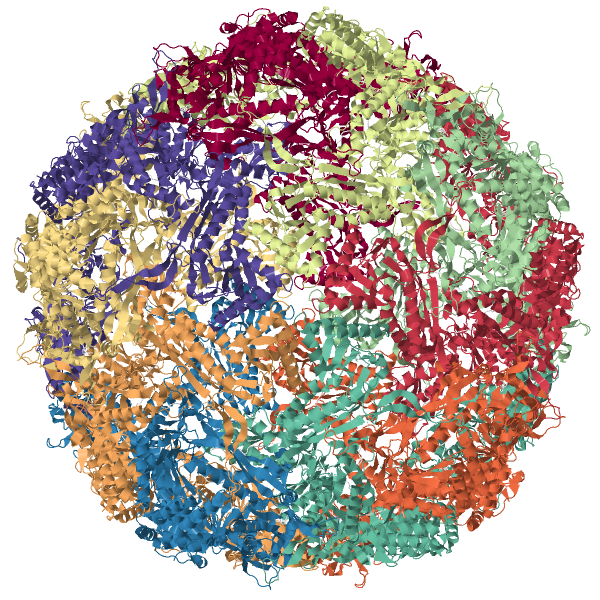 Crystal structure of Thermotoga maritima encapsulin, resolved by X-ray crystallography. Data available at